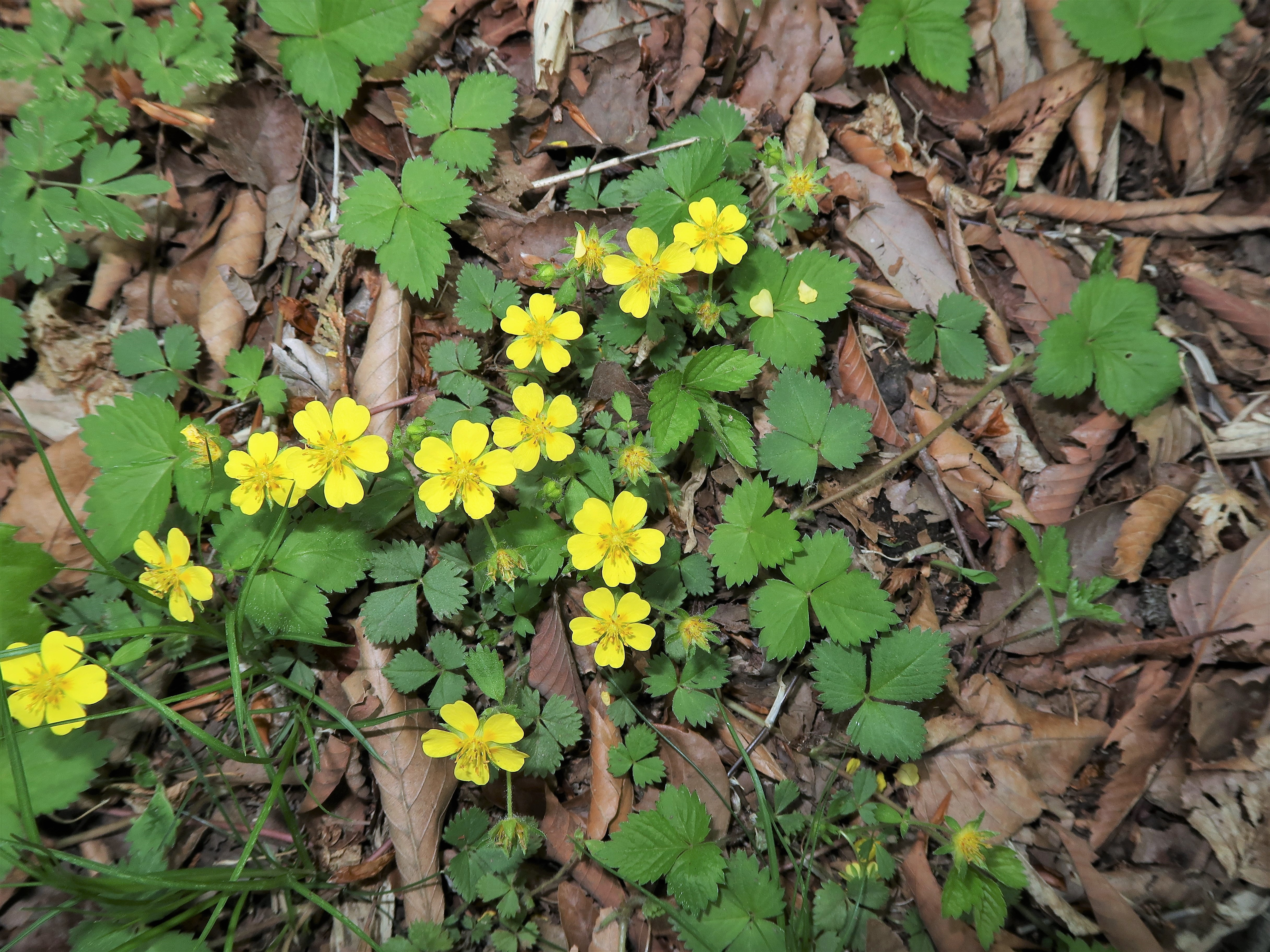 Potentilla rosulifera, north area, Tochigi pref., Japan